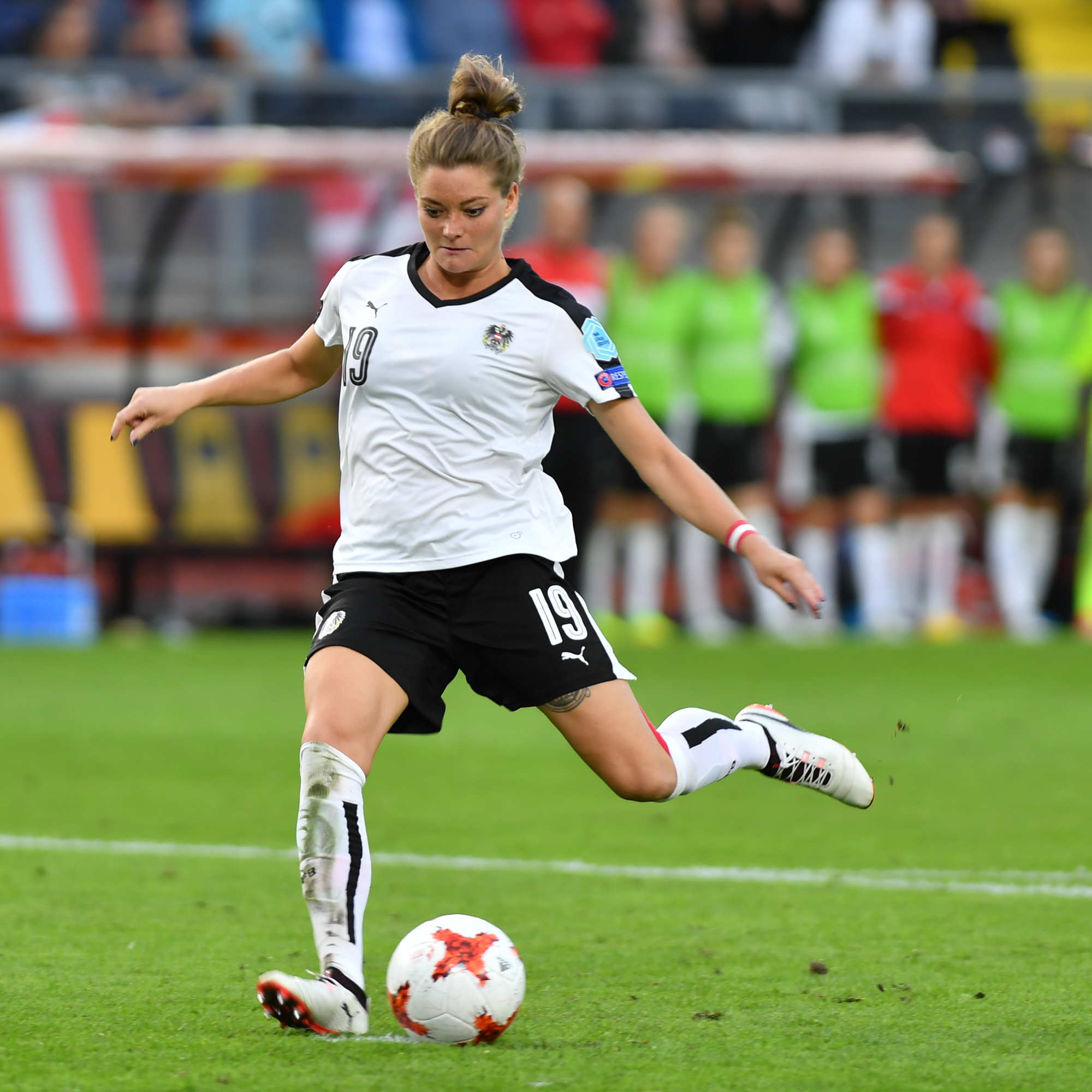 3/8/2017, Breda, Netherlands, sports, soccer, UEFA Women's Euro 2017 - Semifinal - Denmark vs Austria.